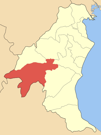 Locator map of Petras municipality (Δήμος Πέτρας) at Pierias perfecture, Greece.